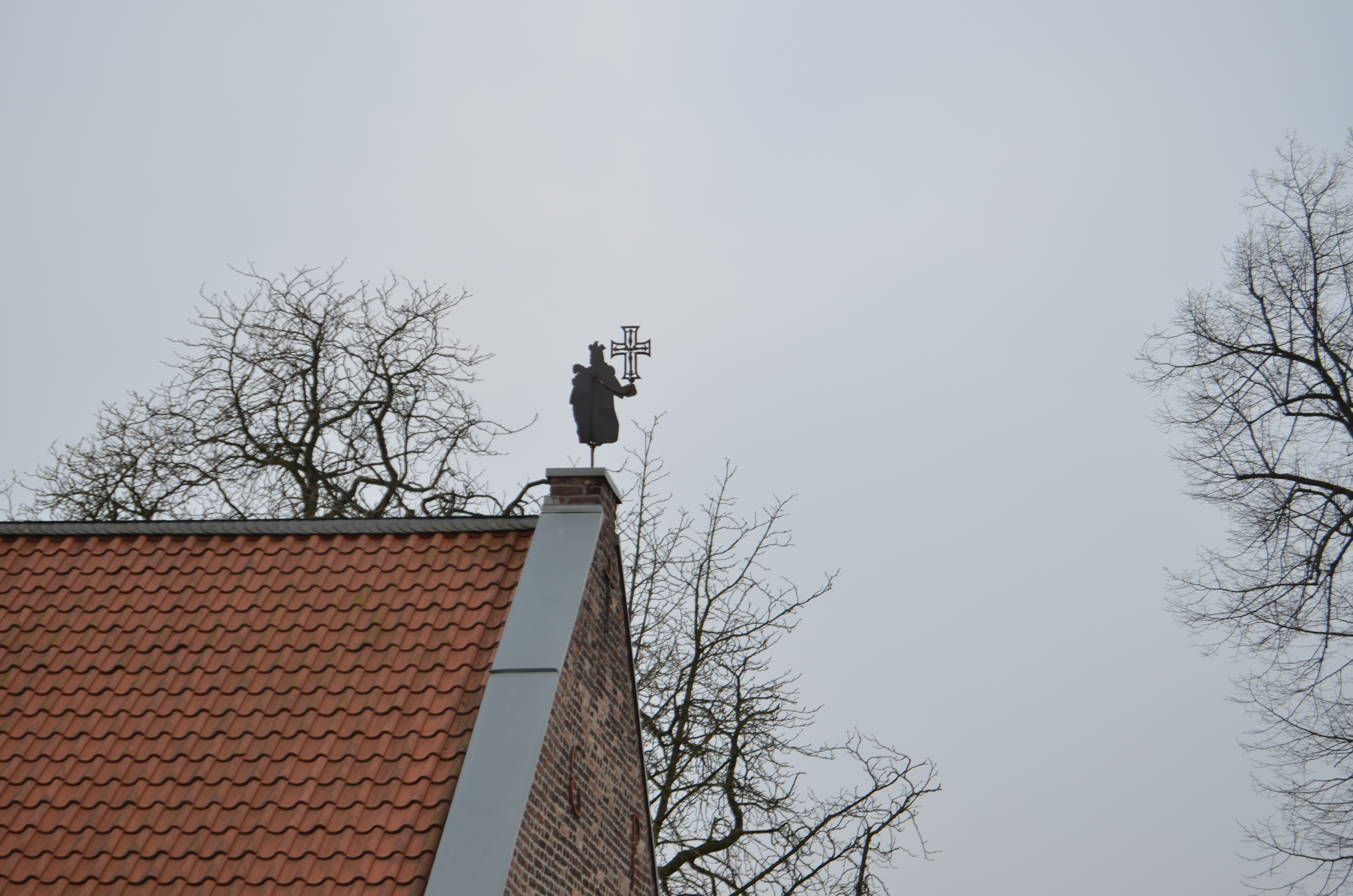 Krefeld (North Rhine-Westphalia, Germany) – district Verberg – farm Kamphof This image shows a heritage building in Germany, located in the North Rhine-Westphalian city Krefeld (no. 922). This photograph was taken with a Nikon D7000.